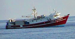 King Diamond II as seen when first encountered by USS Fife in international waters off the coast of Guatemala. The vessel was found to be carrying over 30 tons of shark fins